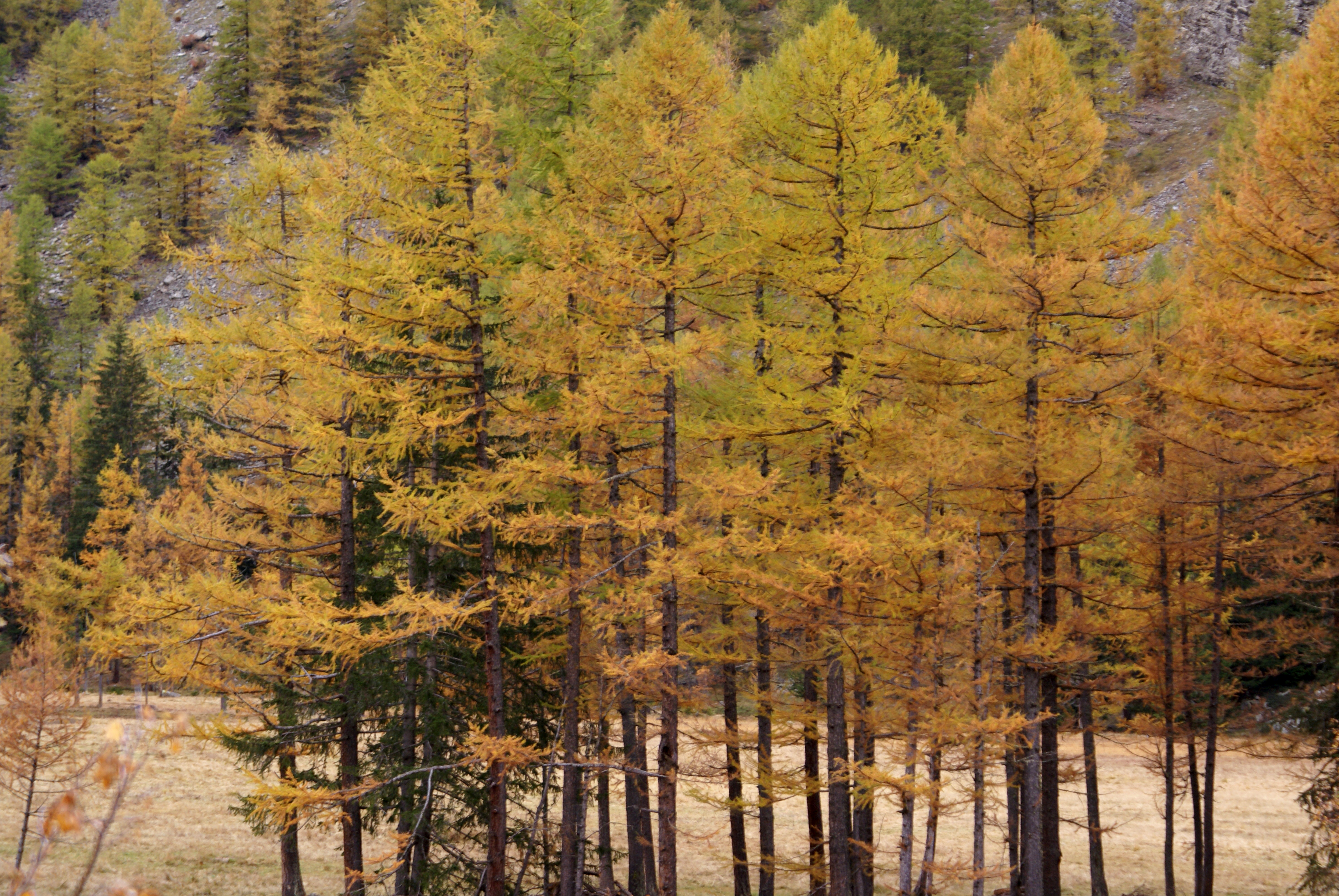 Autumn colors in the Gran Paradiso National Park, Valle d'Aosta, Italy. This is a photo of a monument which is part of cultural heritage of Italy.